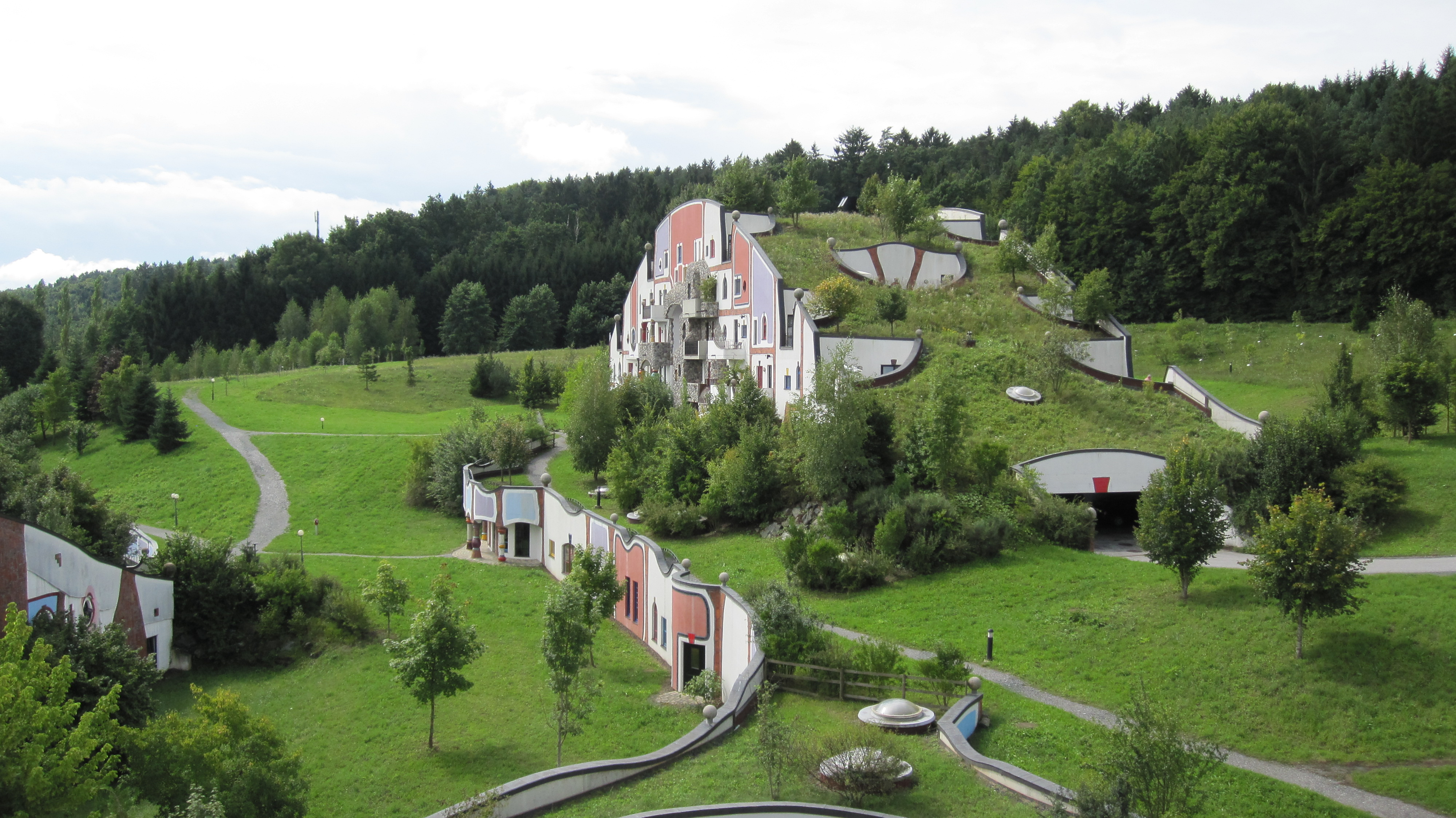 green roof of Steinhaus. Steinhaus is a house of the hotel Rogner Bad Blumau in Bad Blumau, Styria, Austria. Steinhaus is a work of Friedensreich Hundertwasser.